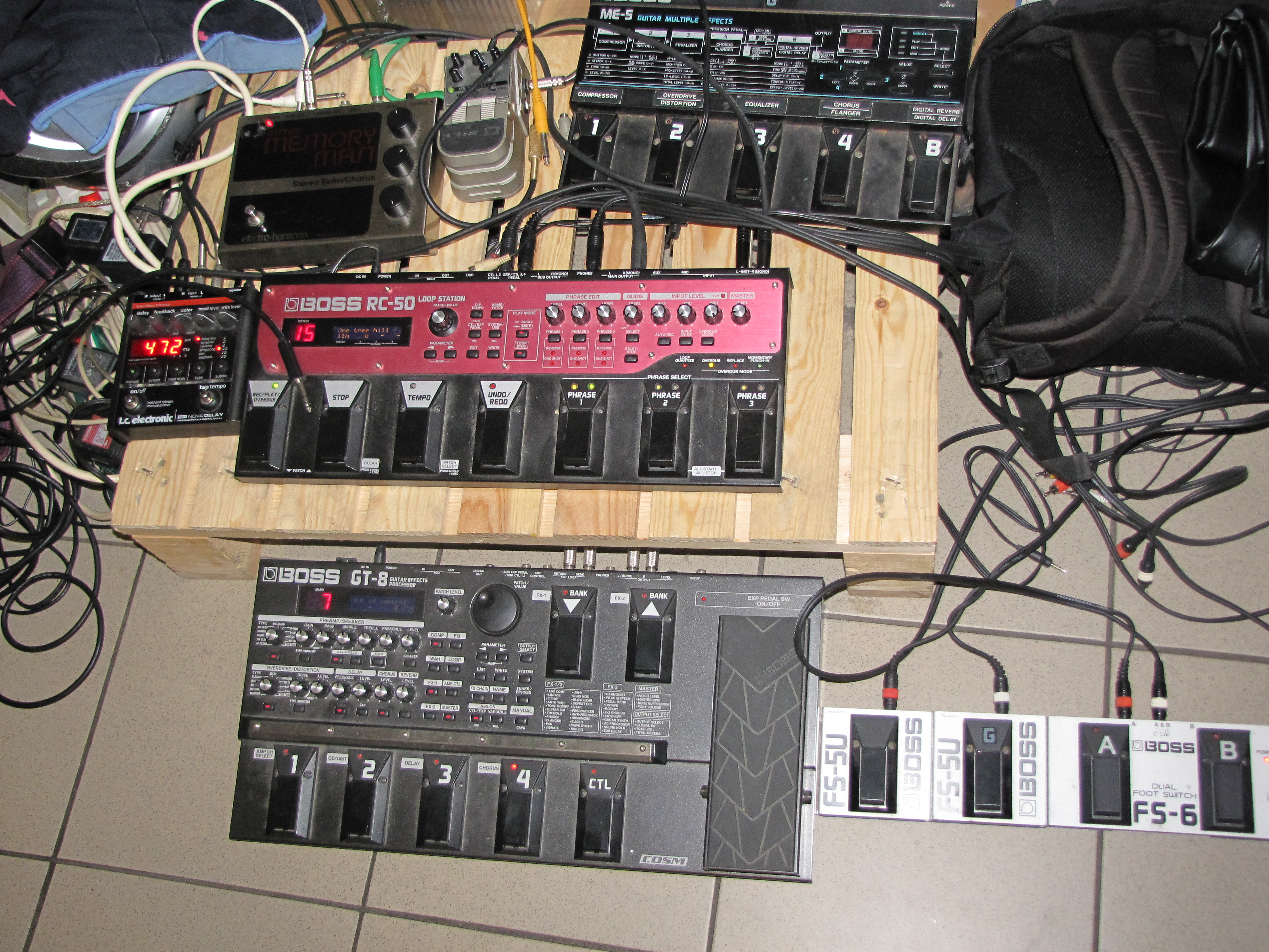 Current setup Electro-Harmonix Stereo Memoryman stereo echo/chorus Line 6 Verbzilla Reverb Effects Pedal BOSS ME-5 Guitar Multiple Effects t.c. electronic Nova Delay Programmable Digital Delay BOSS RC-50 Loop Station BOSS GT-8 Guitar Effects Processor BOSS FS-5U (×2), FS-6 Foot Switch